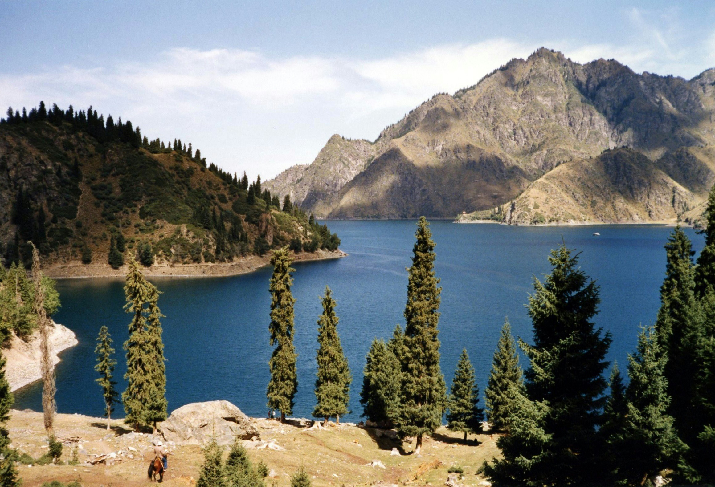 Tianchi Lake or Heaven Lake, Xinjiang, China